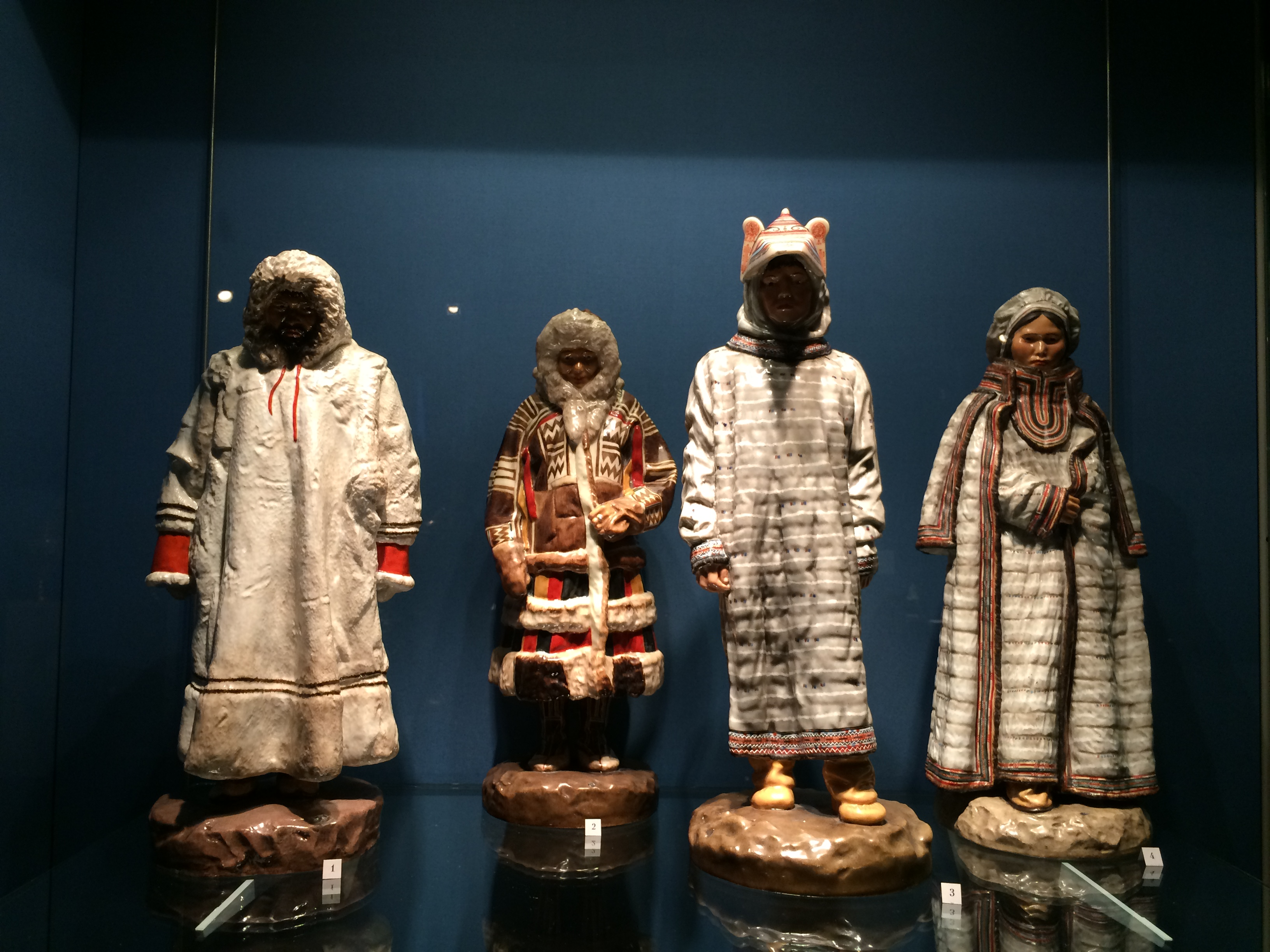 St.Petersburg. The Museum of the Imperial Porcelain Factory. Sculptures from the series "Peoples of Russia." "Great Russian Ryazan Governorate" (center). Models by P.P. Kamensky (1858-1922). Imperial Porcelain Factory, Russia. 1907-1917 gg. Porcelain, polychrome overglaze painting, gilding, silvering, platinum lustre, tooled.